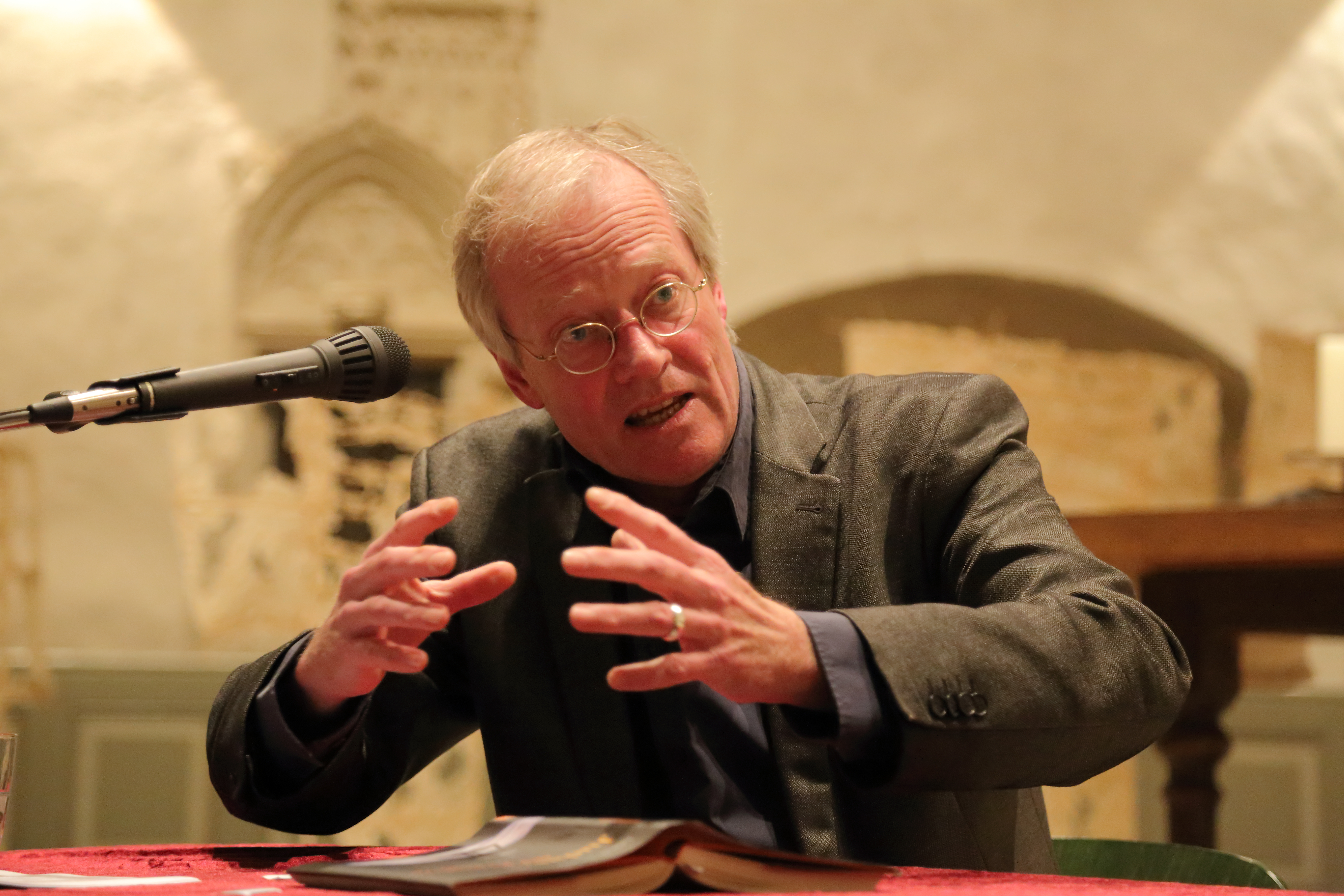 German writer Leo G. Linder reading from his book Judas, der Komplize at the Protestant City Church (Evangelische Stadtkirche) in Westerkappeln, Kreis Steinfurt, North Rhine-Westphalia, Germany.